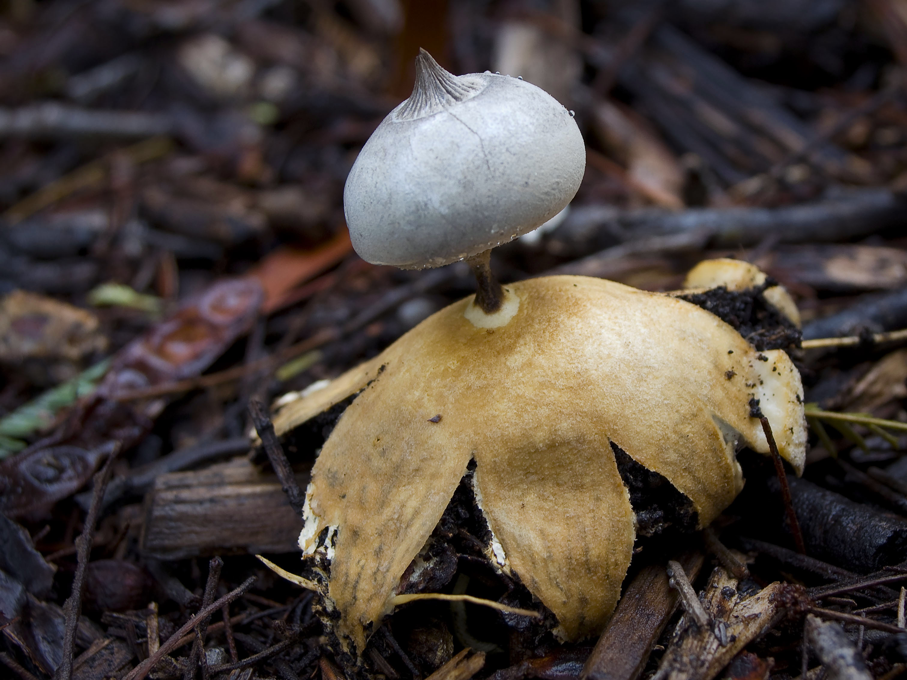 A fruit body of the earthstar mushroom Geastrum pectinatum Pers. Specimen photographed in Melbourne, Victoria, Australia.